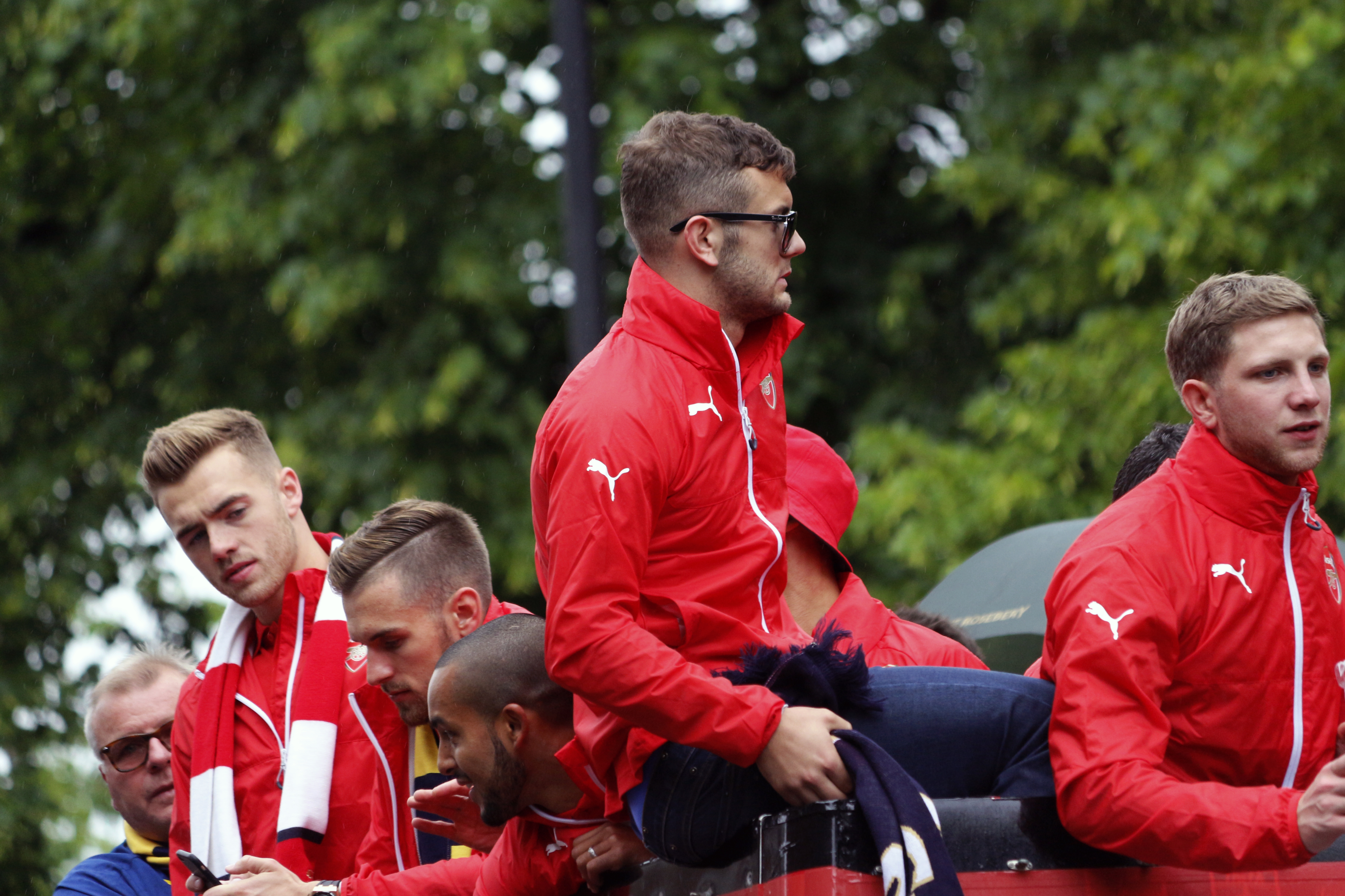 Arsenal FA Cup Winners Parade, 31st May 2015, Islington, London. Aaron Ramsey Calum Chambers Jack Wilshere Theo Walcott